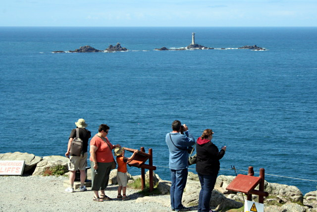 Staring at the Sea Holidaymakers take in the excellent view of Longships afforded by this clear weather.